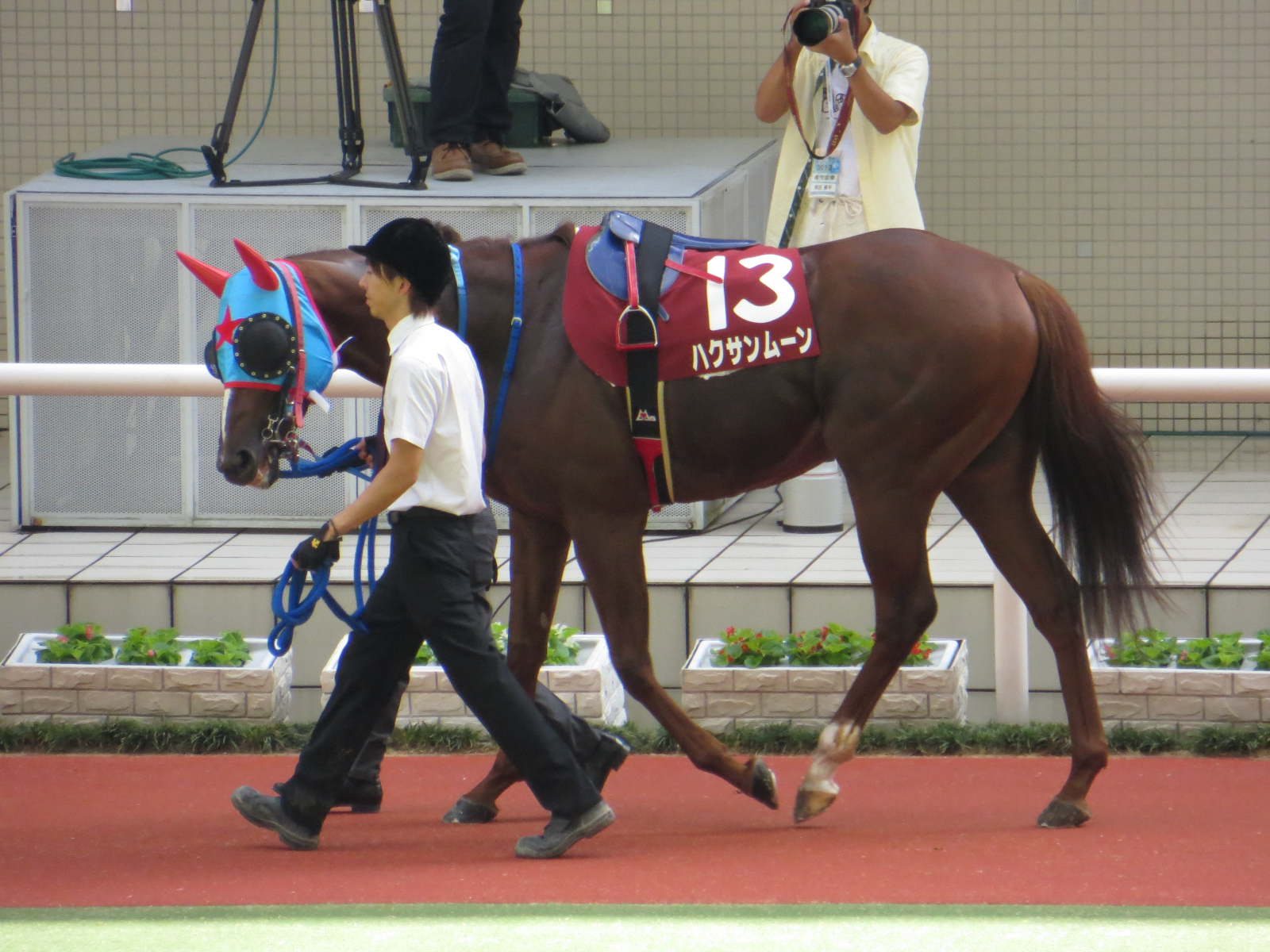 Hakusan Moon (Racehorse of Japan).